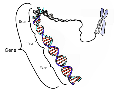 This image shows the coding region in a segment of eukaryotic DNA.